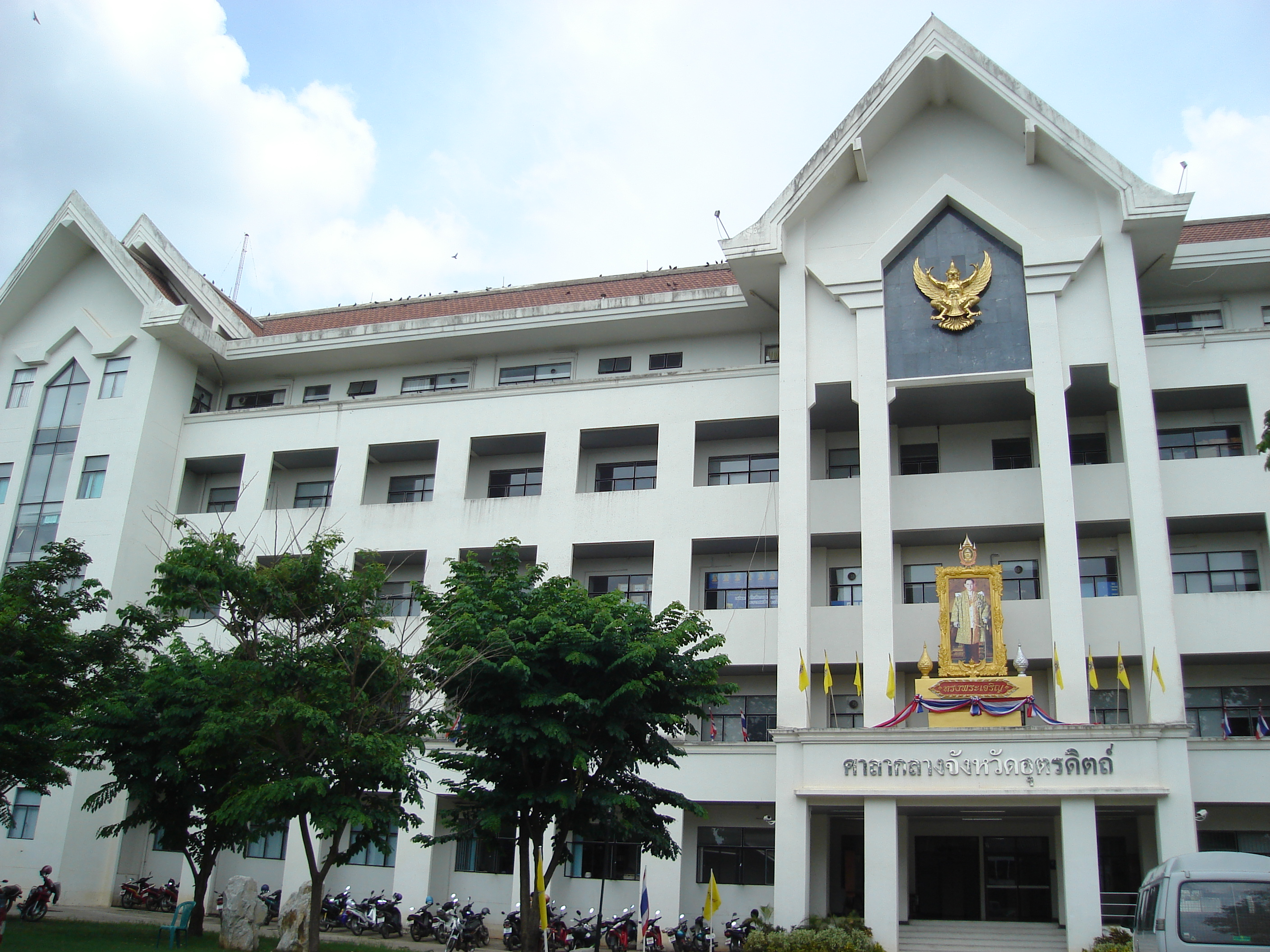 Uttaradit City Hall, Uttaradit Thailand